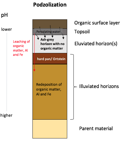 A conceptualization of the process of podzolization in a typical Podzol soil.